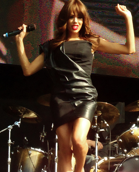 Chester Rocks Saturday